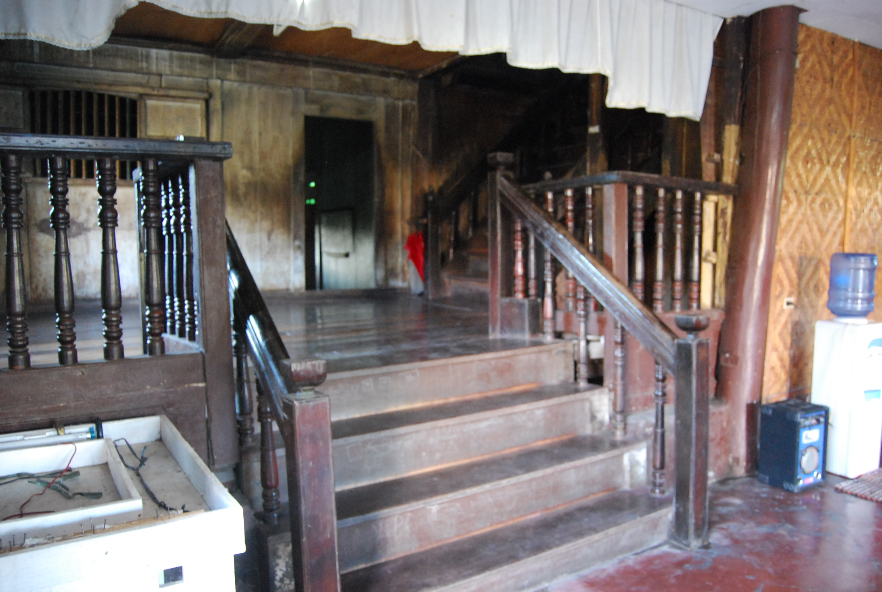 Vega Ancestral House Features, Details and Neighboring Heritage Houses